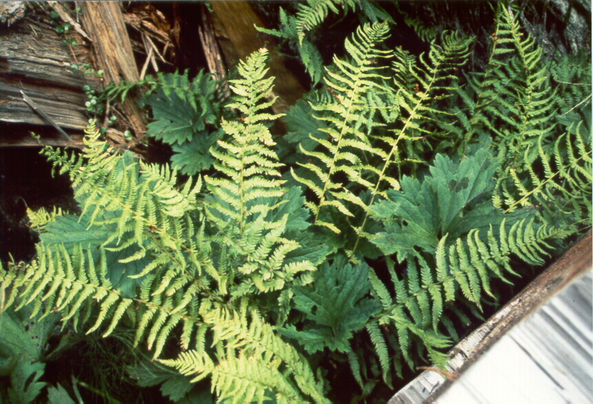 Thelypteris nevadensis, Clearwater National Forest, USA